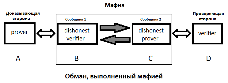 Mafia Fraud Attack's Description